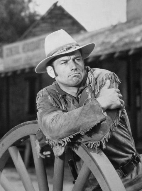 Photo of Ralph Taeger as Hondo Lane from the television program Hondo.